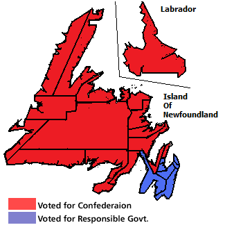 Electoral boundaries and results of the Newfoundland referendum, 1948. Based on data from map [